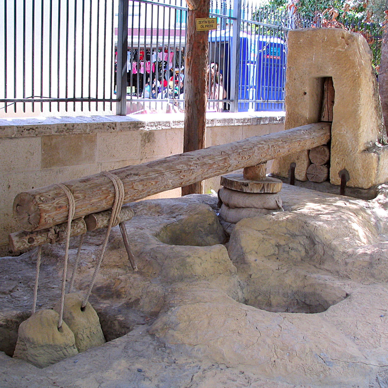 Oil press, Archeological museum Alanya, Turkey.